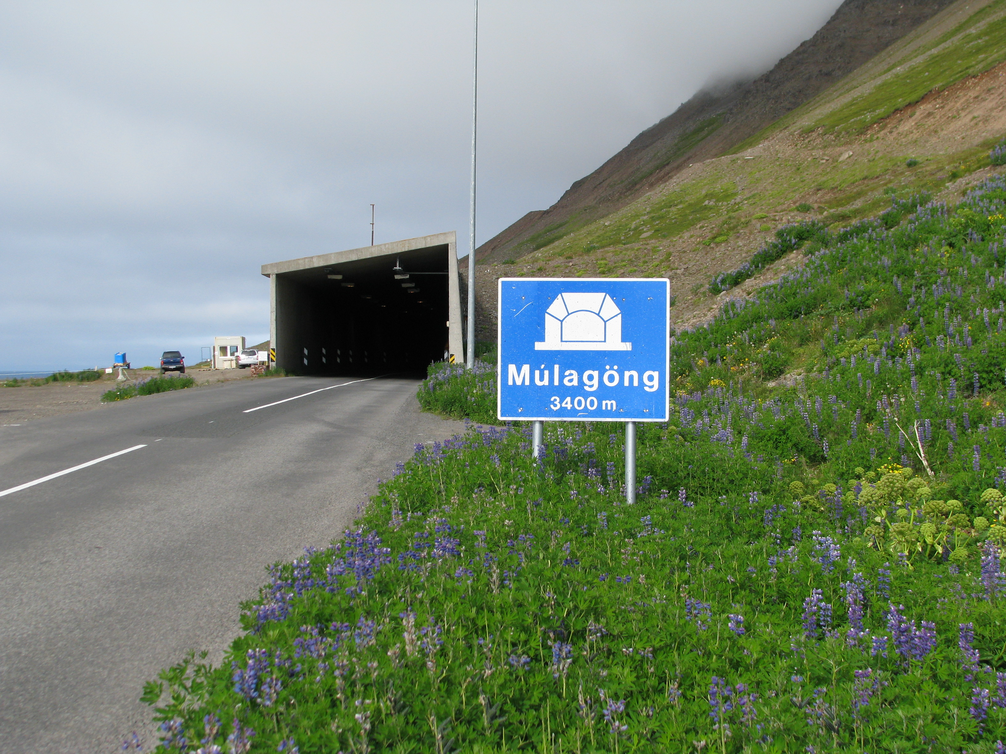 Múlagöng, a tunnel in Iceland.